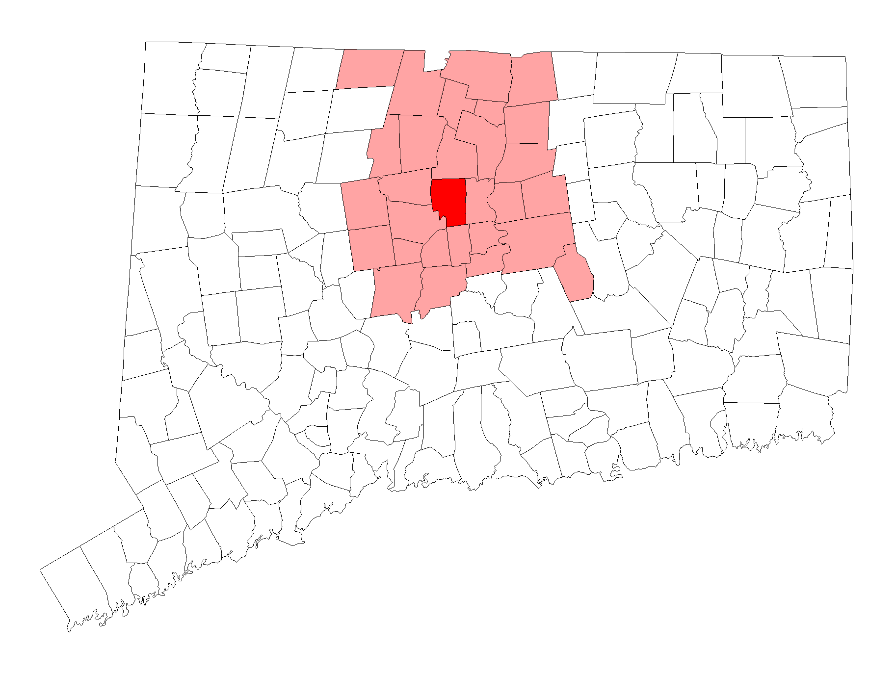 Location within Hartford County, Connecticut